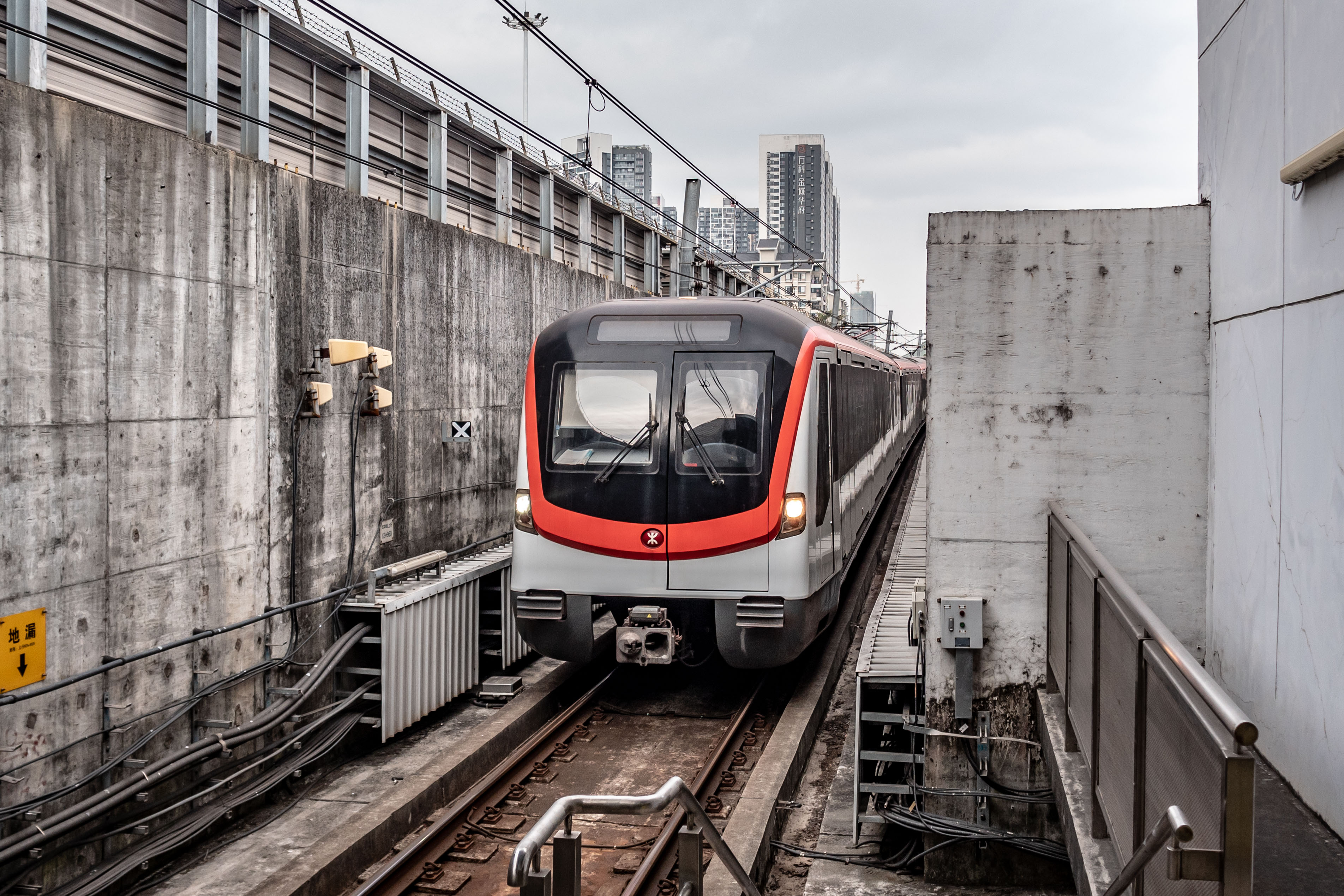 MTRsz CSR Rolling Stock in Min Le 201901